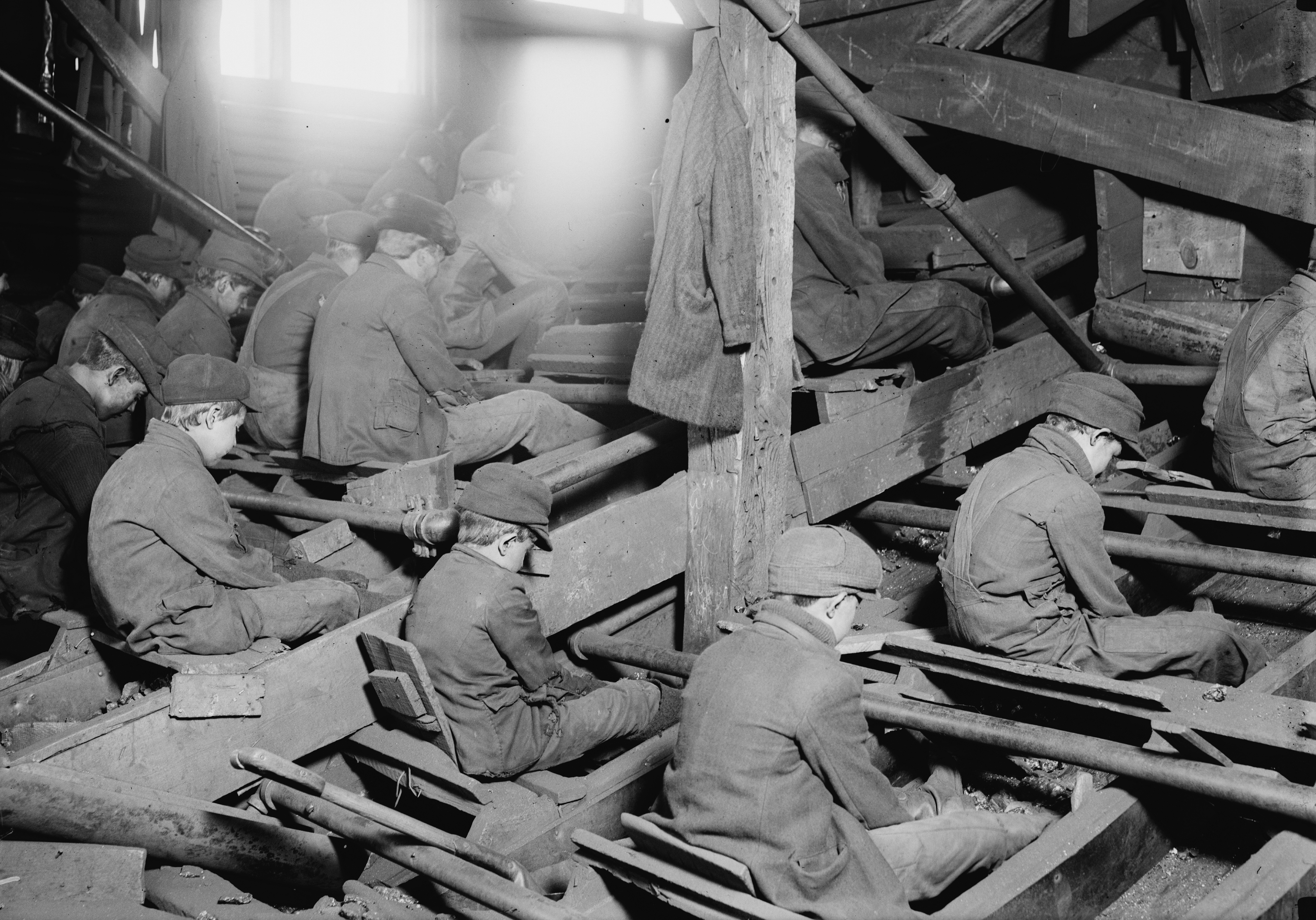 Breaker boys sort coal in at an anthracite coal breaker near South Pittston, Pennsylvania, in 1911. Photograph by Lewis Hine for the National Child Labor Committee.